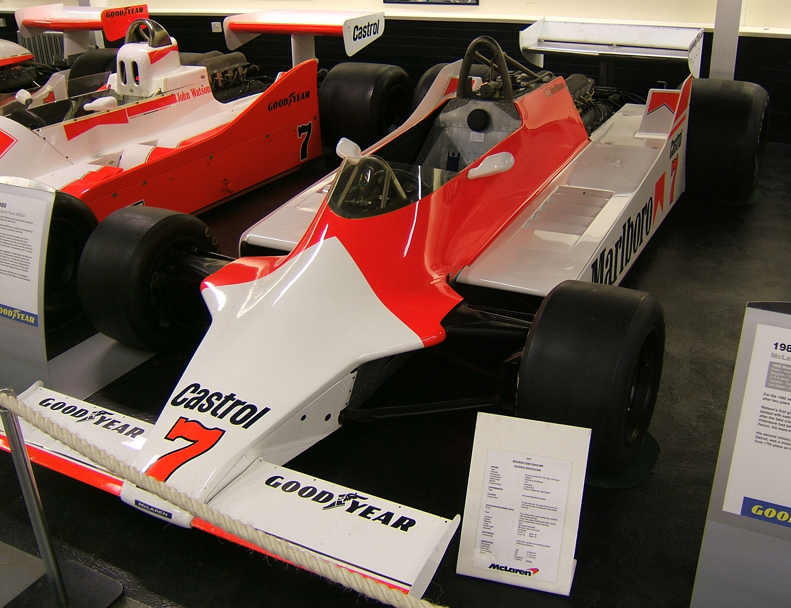 A 1979 McLaren M29. In the Donington Grand Prix Collection museum, Leics., UK.